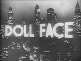 Title card for the 1946 film Doll Face